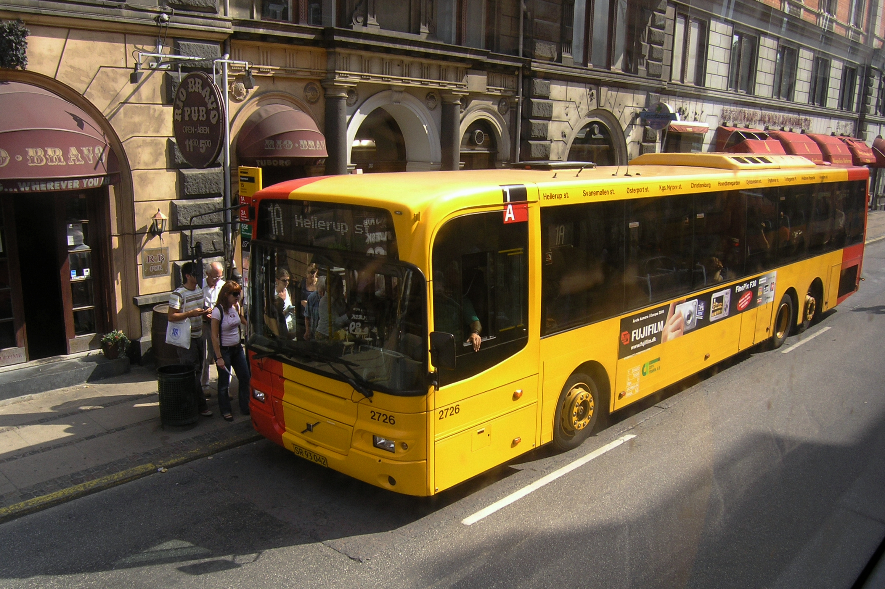 An oldie and a surprisingly sharp and good looking one? - but then, the picture was taken by a pro! Well... not the low-brow behind the camera, but the camera itself =D It was (is) an Olympus C5060W (W for wideangle). An awesome piece! I still have it, but it has gotten a lazy pixel, and only delivers 5M pix a pop. Posted to be used for: "Alphabet Game - Must have some relation to Transport or Vehicle" - and I wonder why I have so few pictures of buses since I have more than plenty of trains!? On this location at Vester Voldgade 86 is the Bio Bravo "Pub", and in there - every day of the week / all day long - you can have "Roast pork with parsley sauce" for 128 DKkr. (12$, 11£, 8€) It's cheap, and the great deal is, you can eat as much of it, and as long, as you want! As a bonus, the dish is an old danish classic =) The rest of the menu at restaurant Rio Bravo doesn't seem overly pricy consideret it's in central Copenhagen.